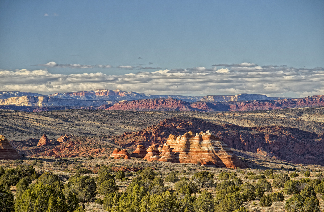 View from Cottonwood Cove looking north past the Teepees across the Paria Plateau, in Coyote Buttes South, Vermilion Cliffs National Monument, Arizona.